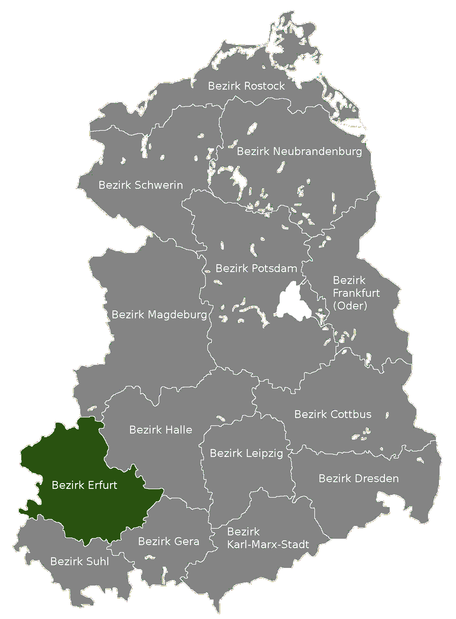 Map based on German Wikipedia